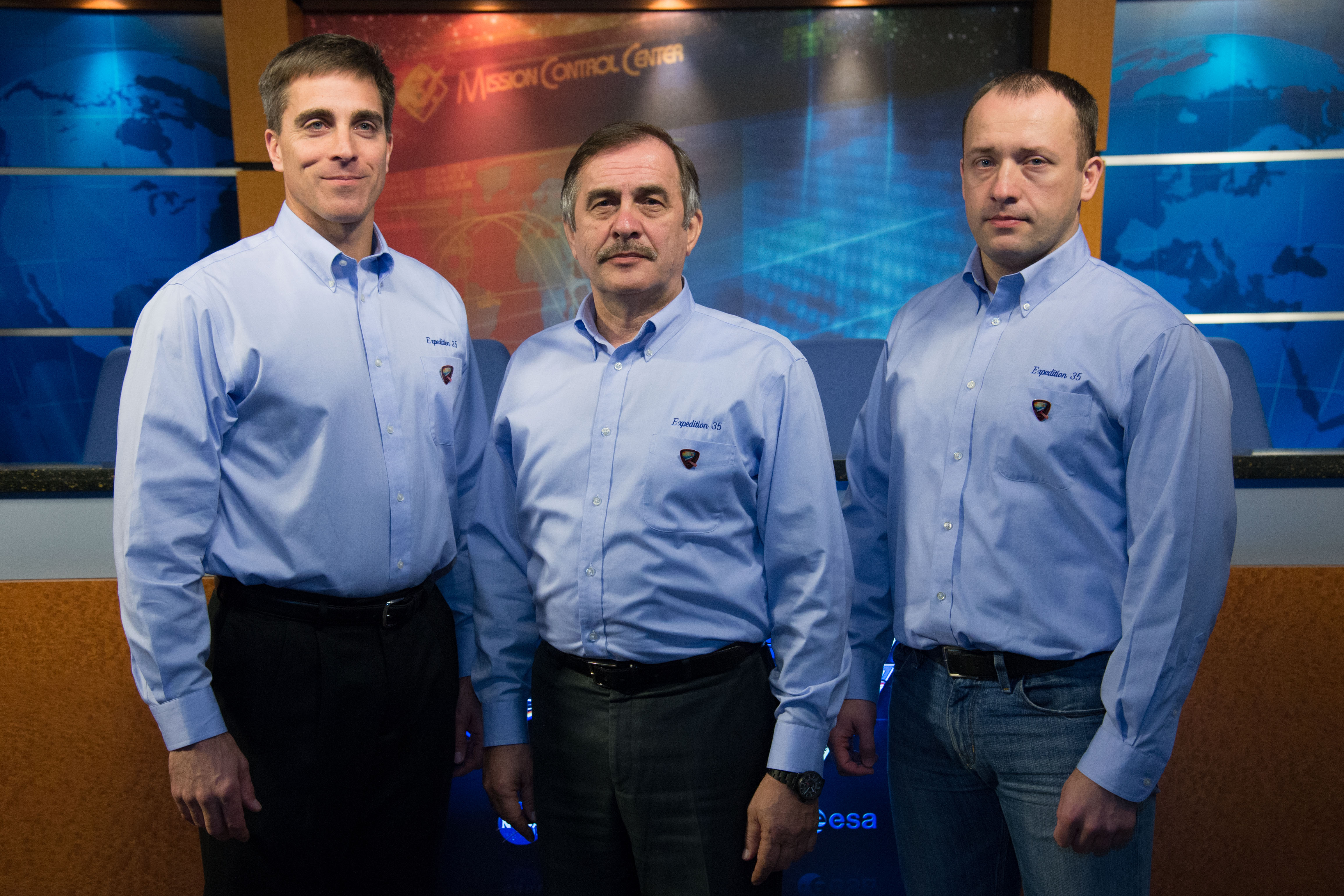 Russian cosmonaut Pavel Vinogradov (center), Expedition 35 flight engineer and Expedition 36 commander; along with NASA astronaut Chris Cassidy (left) and Russian cosmonaut Alexander Misurkin, both Expedition 35/36 flight engineers, pose for a portrait following an Expedition 35/36 preflight press conference at NASA's Johnson Space Center.